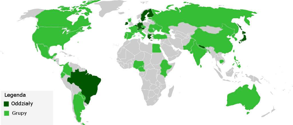 Map OKI